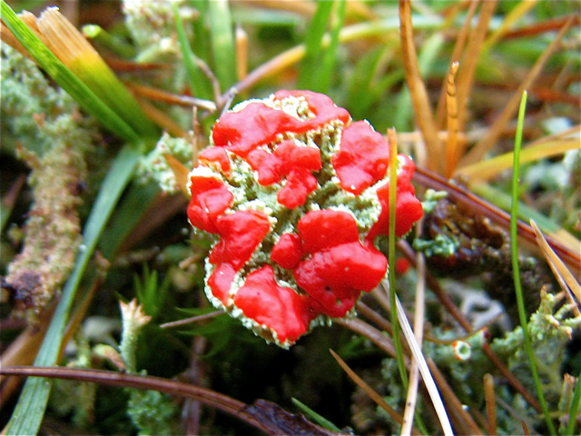 Newburgh: heathland lichen The fruiting body of the lichen Cladonia bellidiflora growing on a wet heath on the Sands of Forvie National Nature reserve.